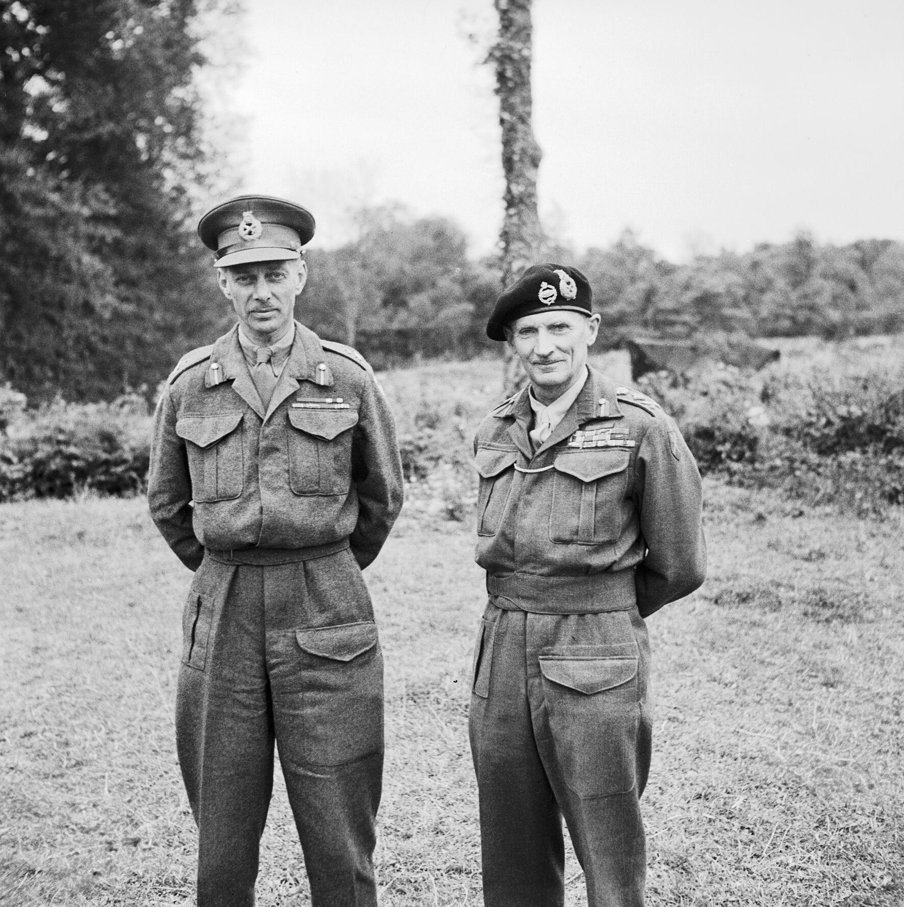 Lieutenant General Miles Dempsey, commanding British 2nd Army, with General Sir Bernard Montgomery in France, 16 July 1944. The Commanding Officers of 21st Army Group: Lt General Miles C Dempsey CB DSO MC, Commander of the British 2nd Army, photographed with General Sir Bernard Montgomery in France.